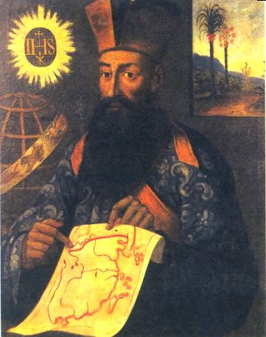 The Italian Jesuit Martino Martini, one of the first European cartographers of the Chinese empire.